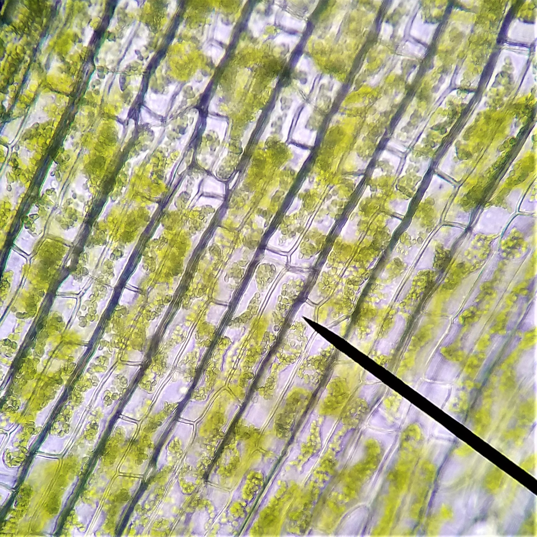 Plazmolyzed Elodea Cells under 400X Magnification